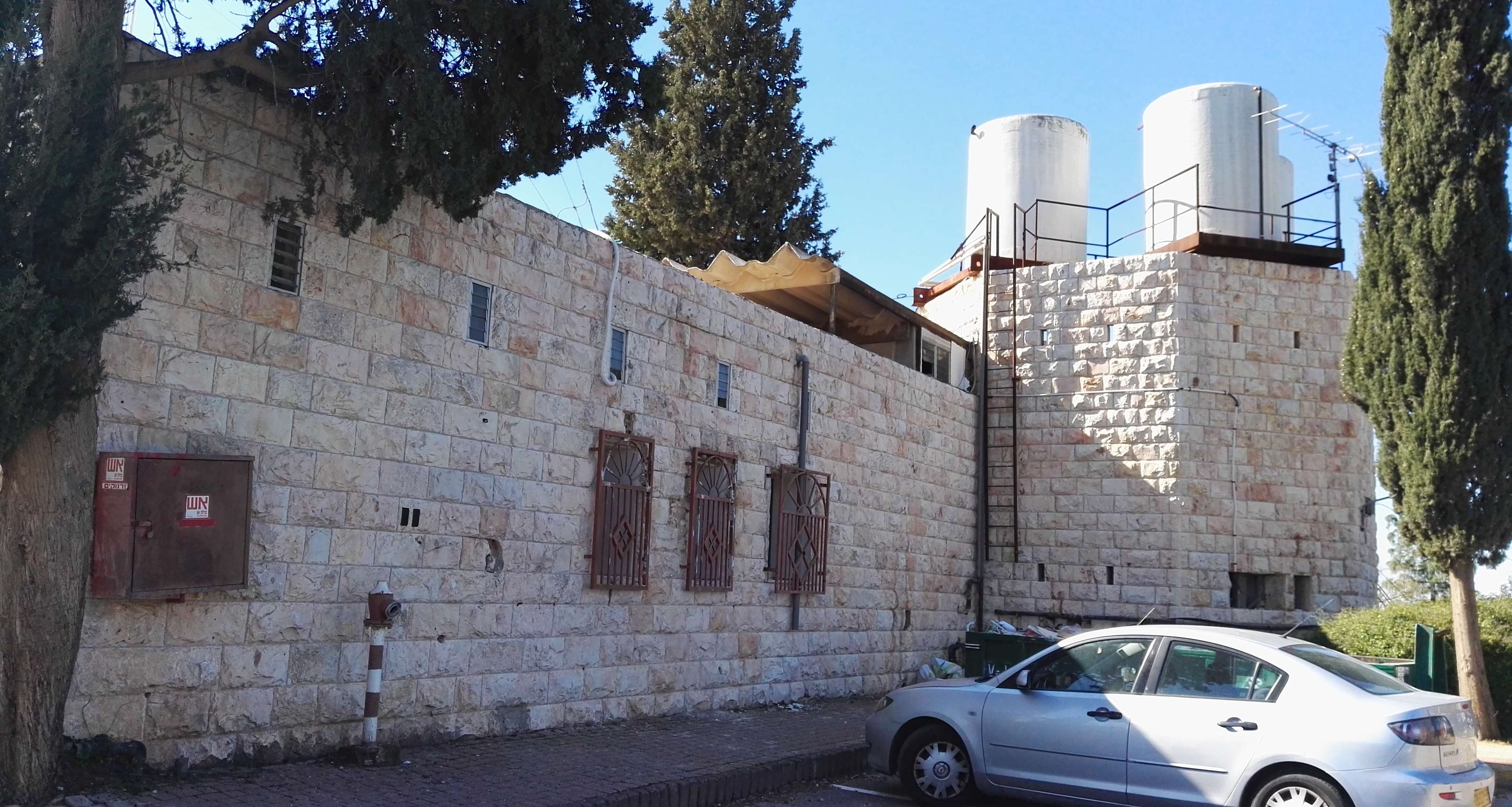 Former Jordanian police fort, currently local council building in Elkana.